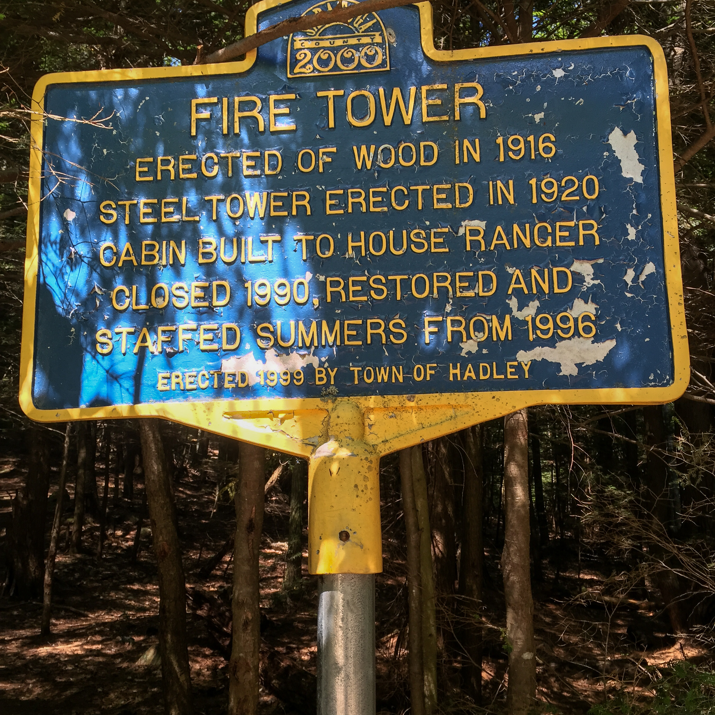 FIRE TOWER. ERECTED OF WOOD IN 1916, STEEL TOWER ERECTED IN 1920. CABIN BUILT TO HOUSE RANGER CLOSED 1990, RESTORED AND STAFFED SUMMERS FROM 1996.